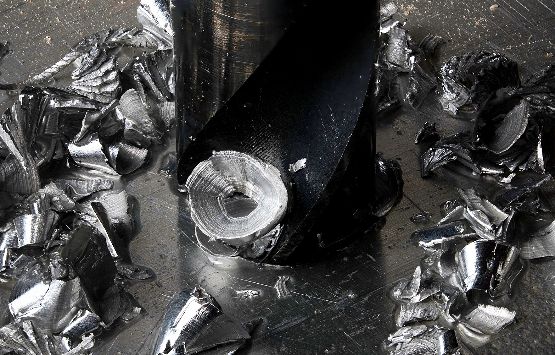 High speed steel drill bit drilling into aluminium with methylated spirit lubricant. The drill bit was mounted to a floor standing drill press Camera data Camera Canon EOS 400D Lens Canon EF 70-200mm f4L w/ 12mm + 25mm + 36mm extension tubes Flash Umbrella left Focal length 94 mm Aperture f/11 Exposure time 1/160 s Sensivity ISO 100